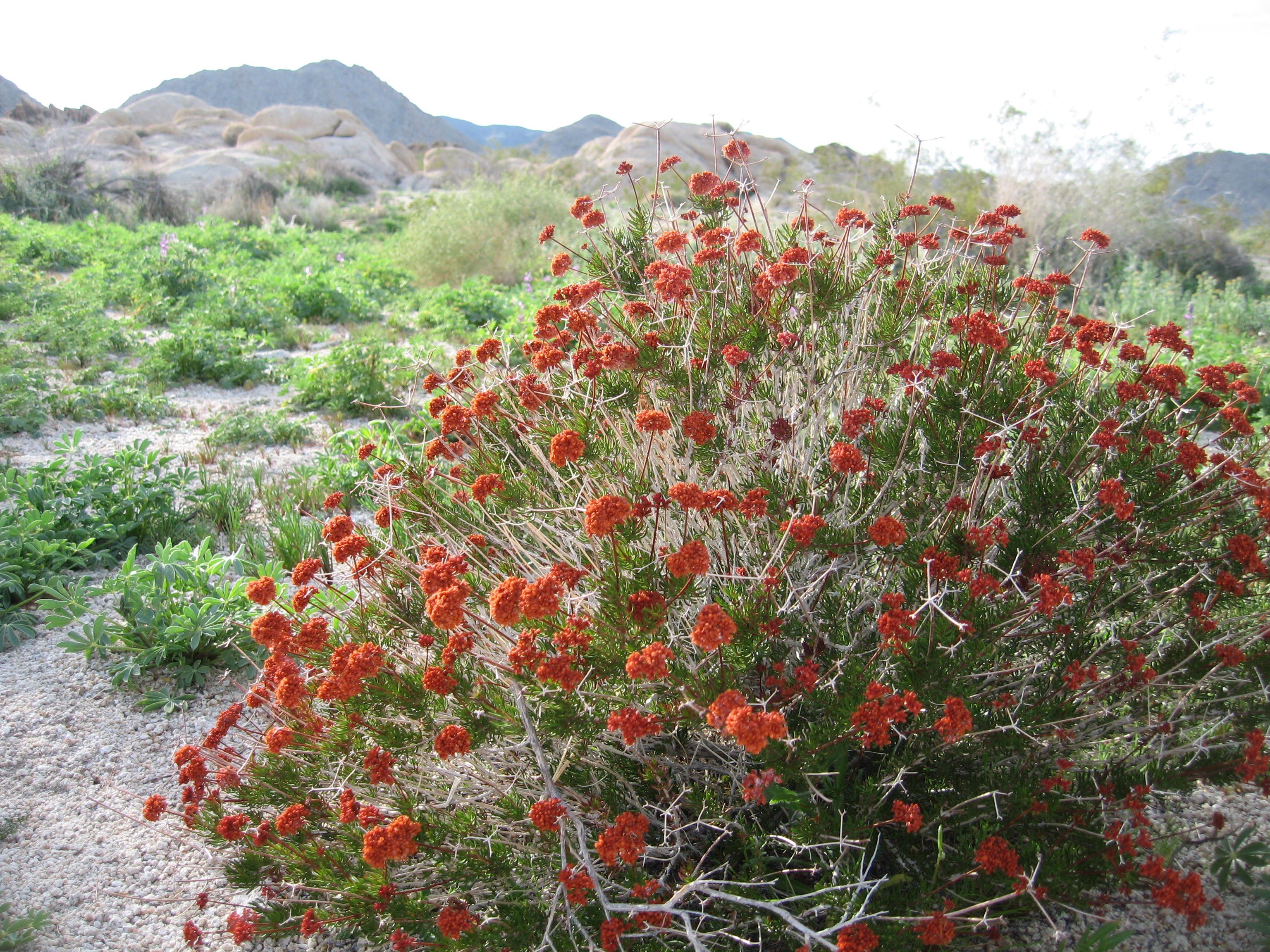 Flora of Joshua Tree National Park: Eastern Mojave buckwheat (Eriogonum fasciculatum); Hidden Valley Trail - 12525828333.